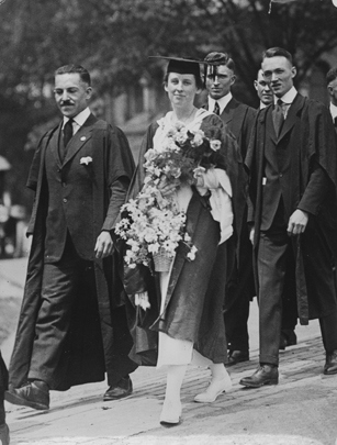 A graduation procession from the University of Toronto including Canadian architect Esther Hill.